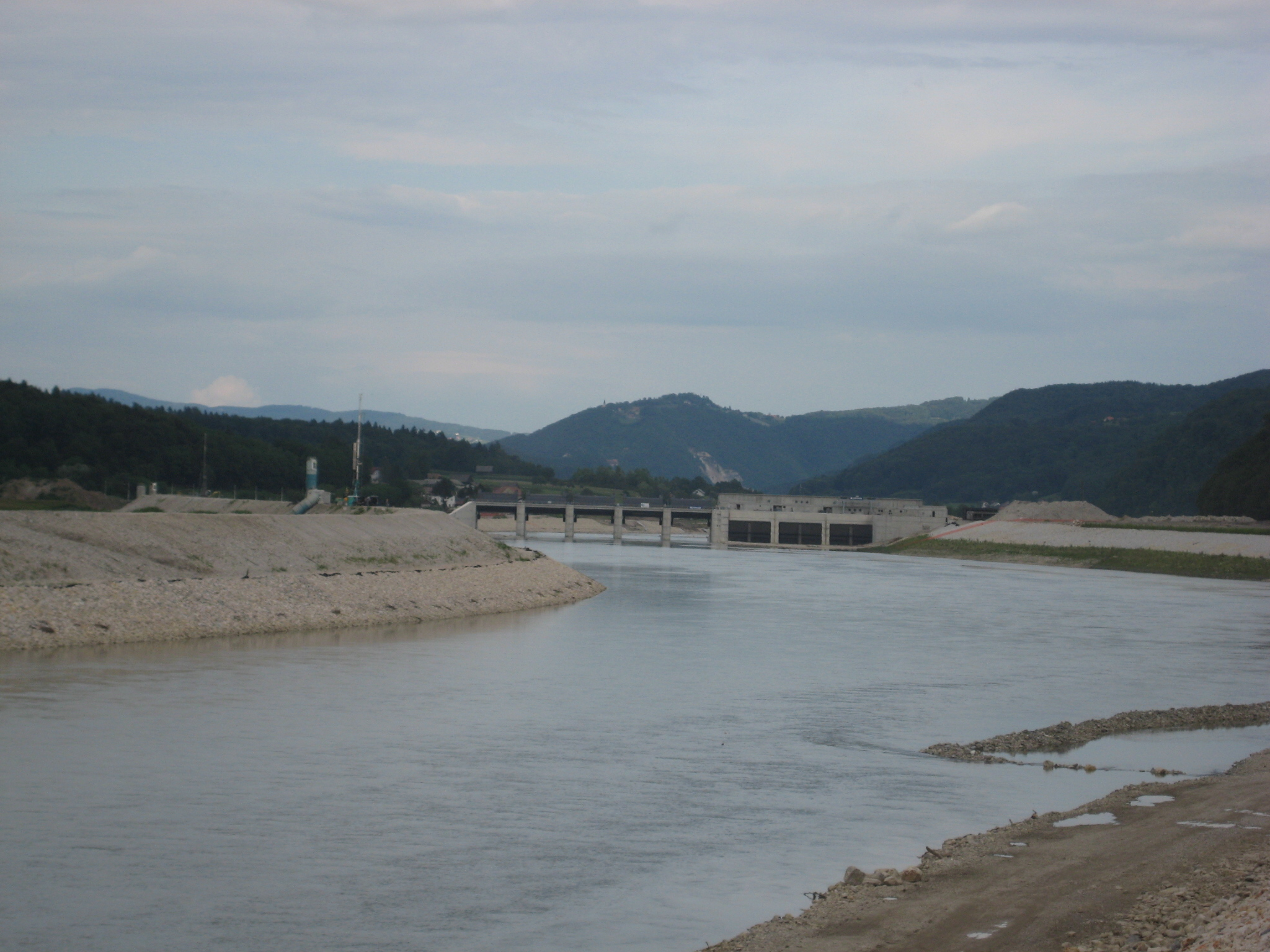 Hydroelectric station Blanca, SLovenia (building phase)